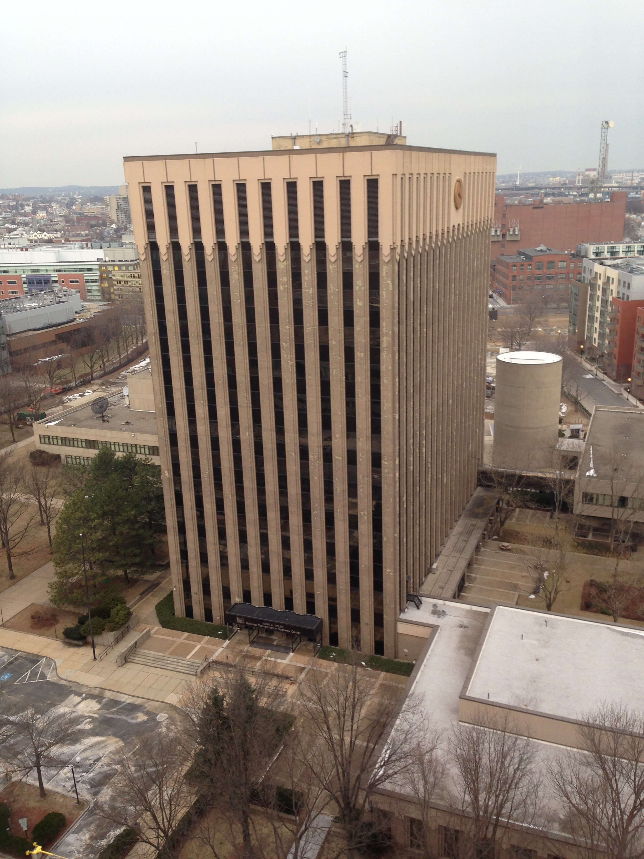 The John A. Volpe National Transportation Systems Center in Cambridge, Massachusetts, photographed from the Marriott hotel across the street